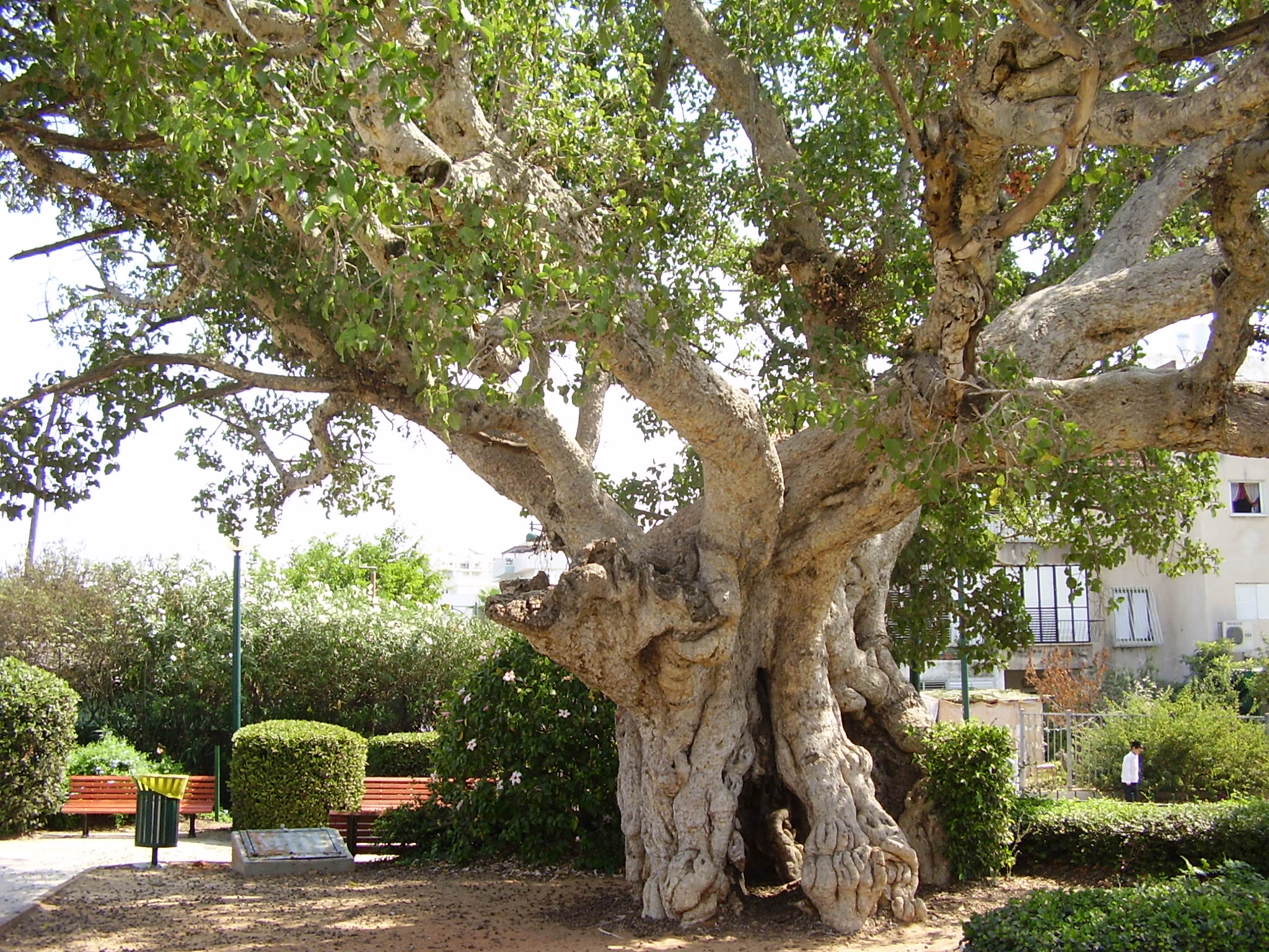 sycamore tree, ramat-gan, israel.